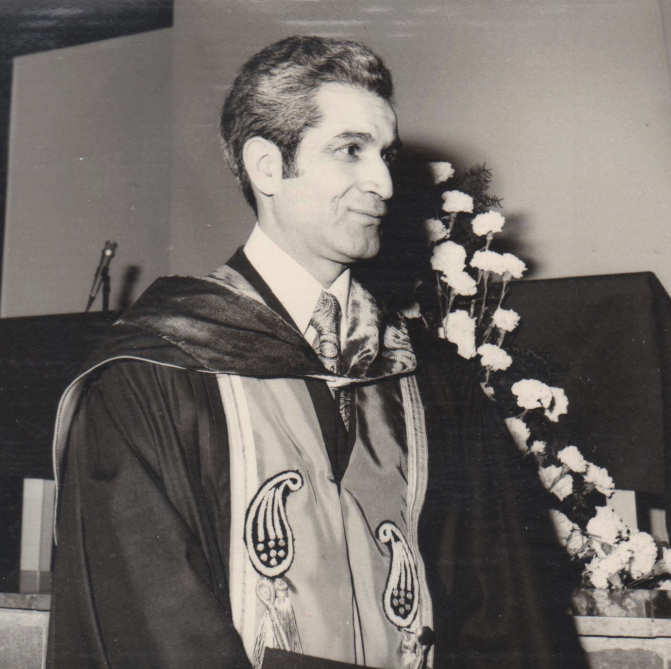 This picture has been provided to me directly by the Professor's family to be used in the body of the article.